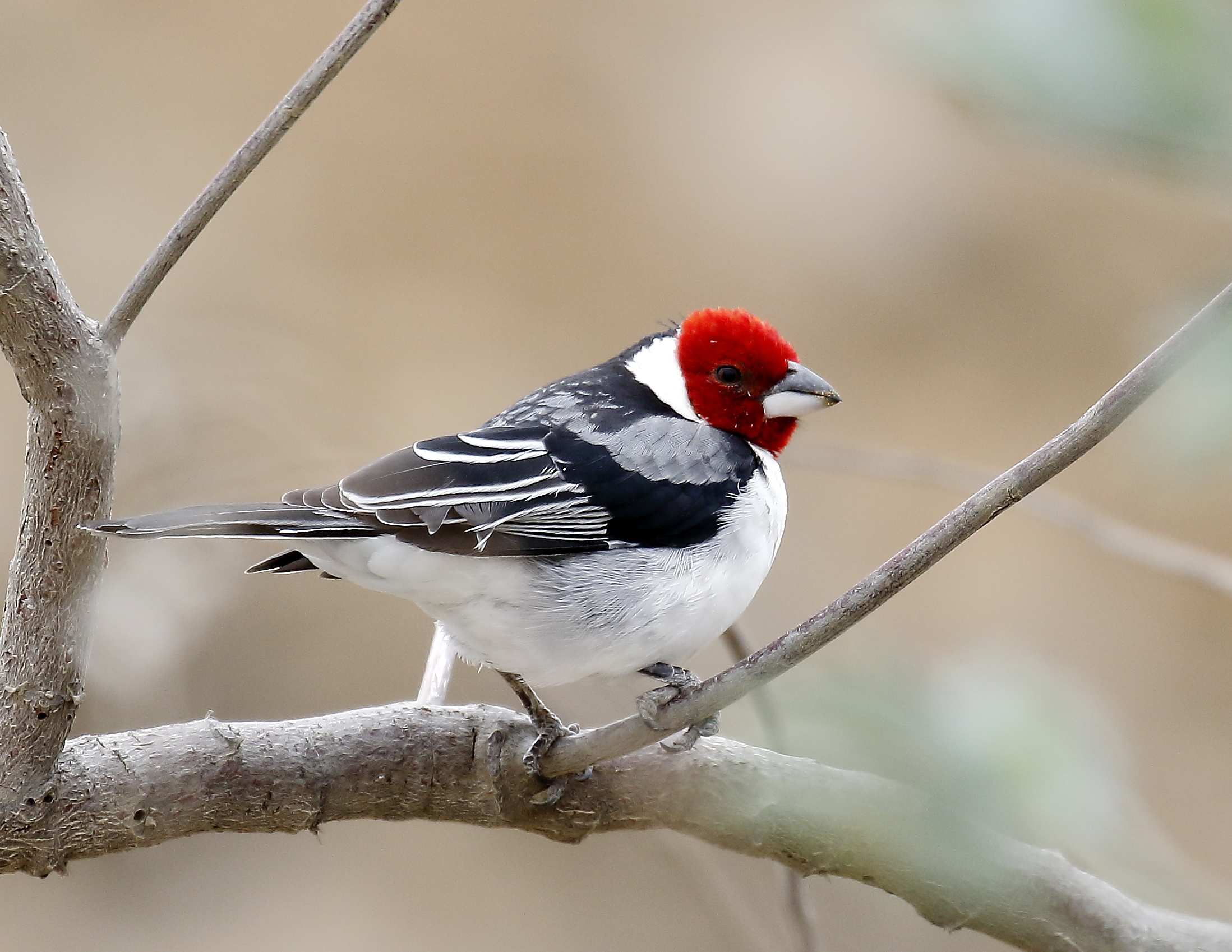 Red-cowled Cardinal; Juazeiro, Bahia, Brazil